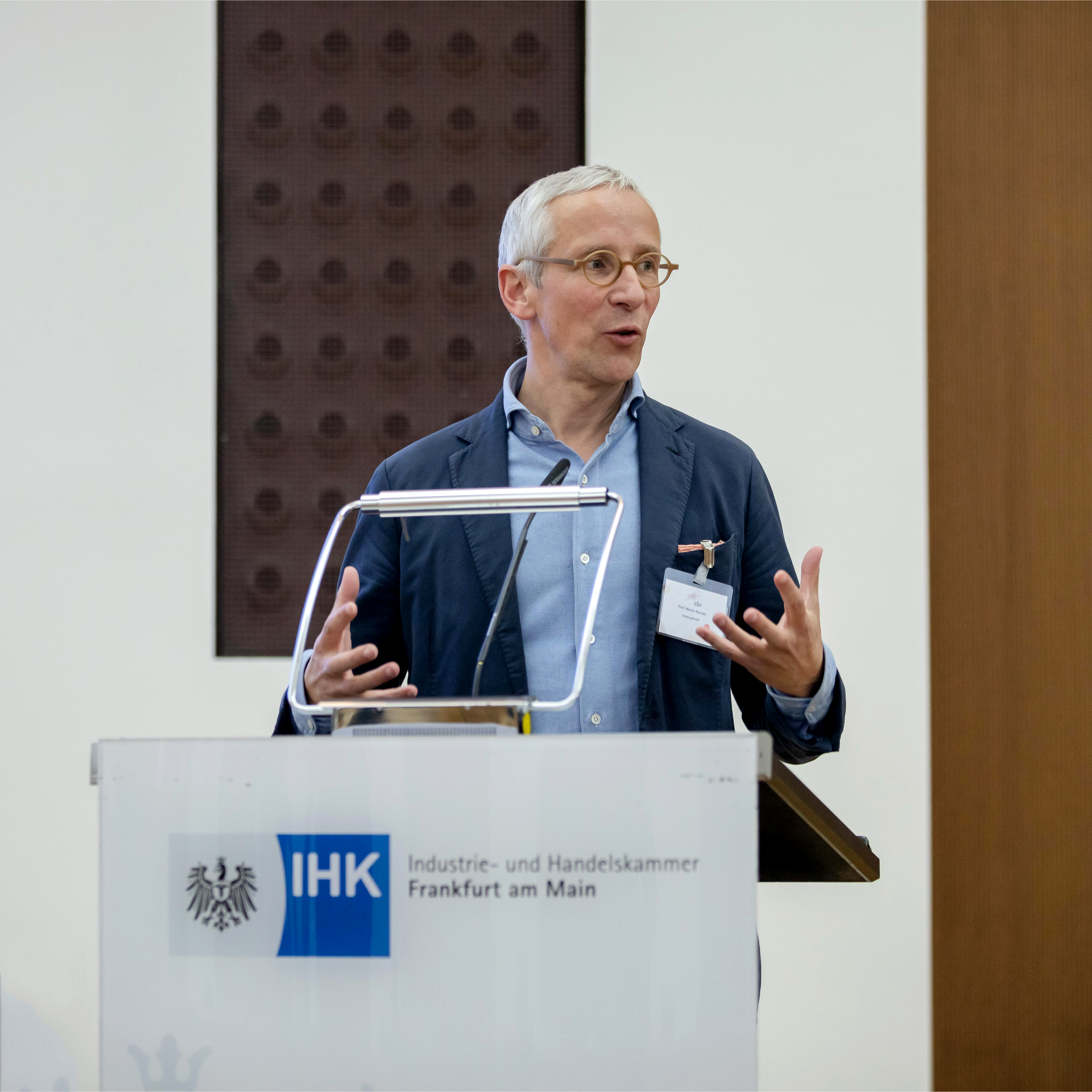 Martin Rendel speaking at the Smart City Conference in Frankfurt